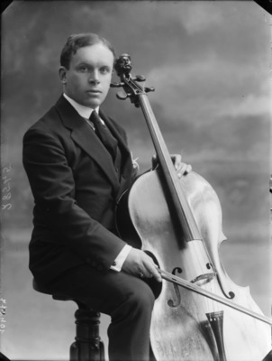 prof. Antonio Certani di Cerreto